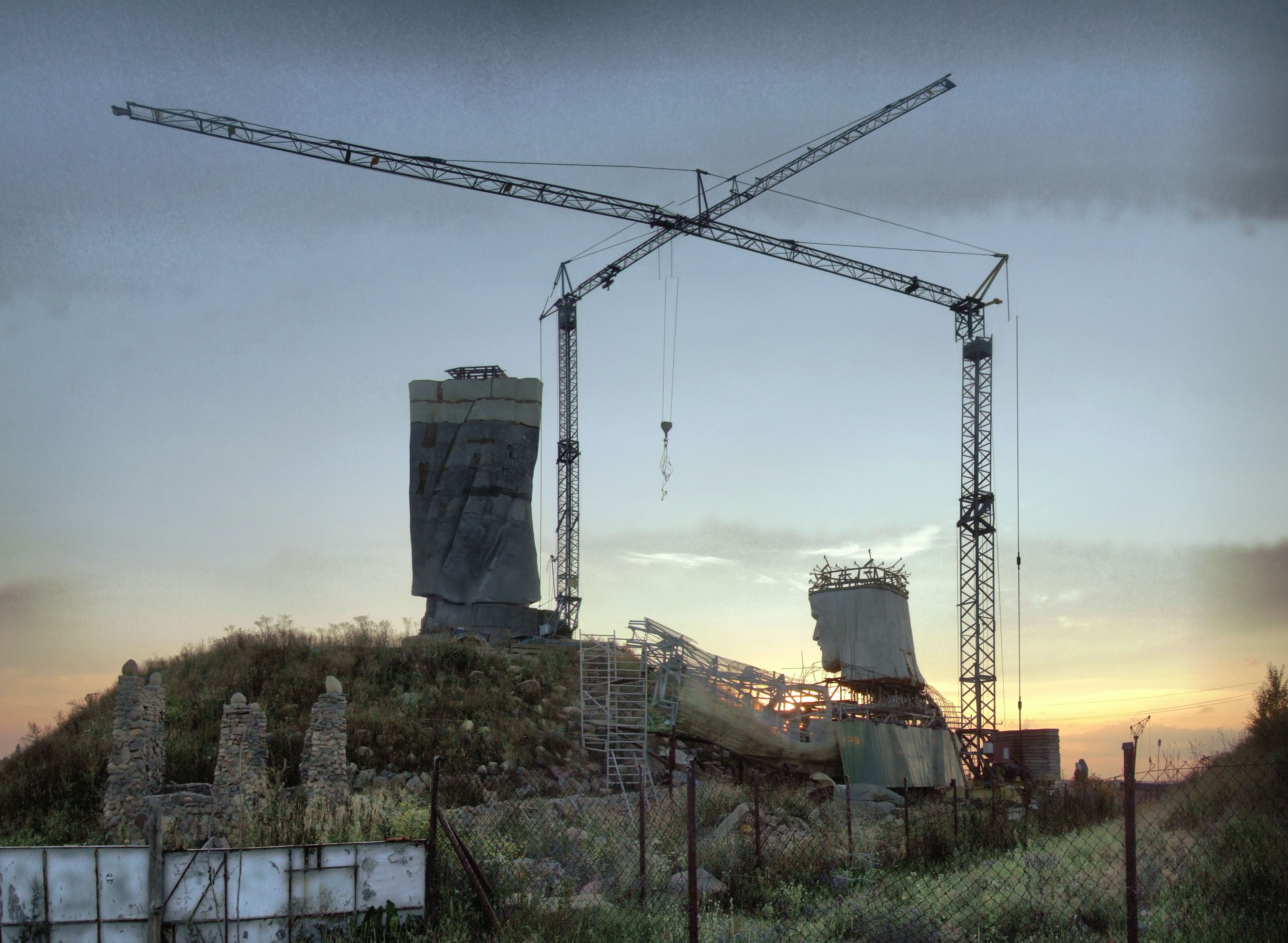 a 35-metre statue of Jesus Christ being built in the city of Świebodzin, Poland